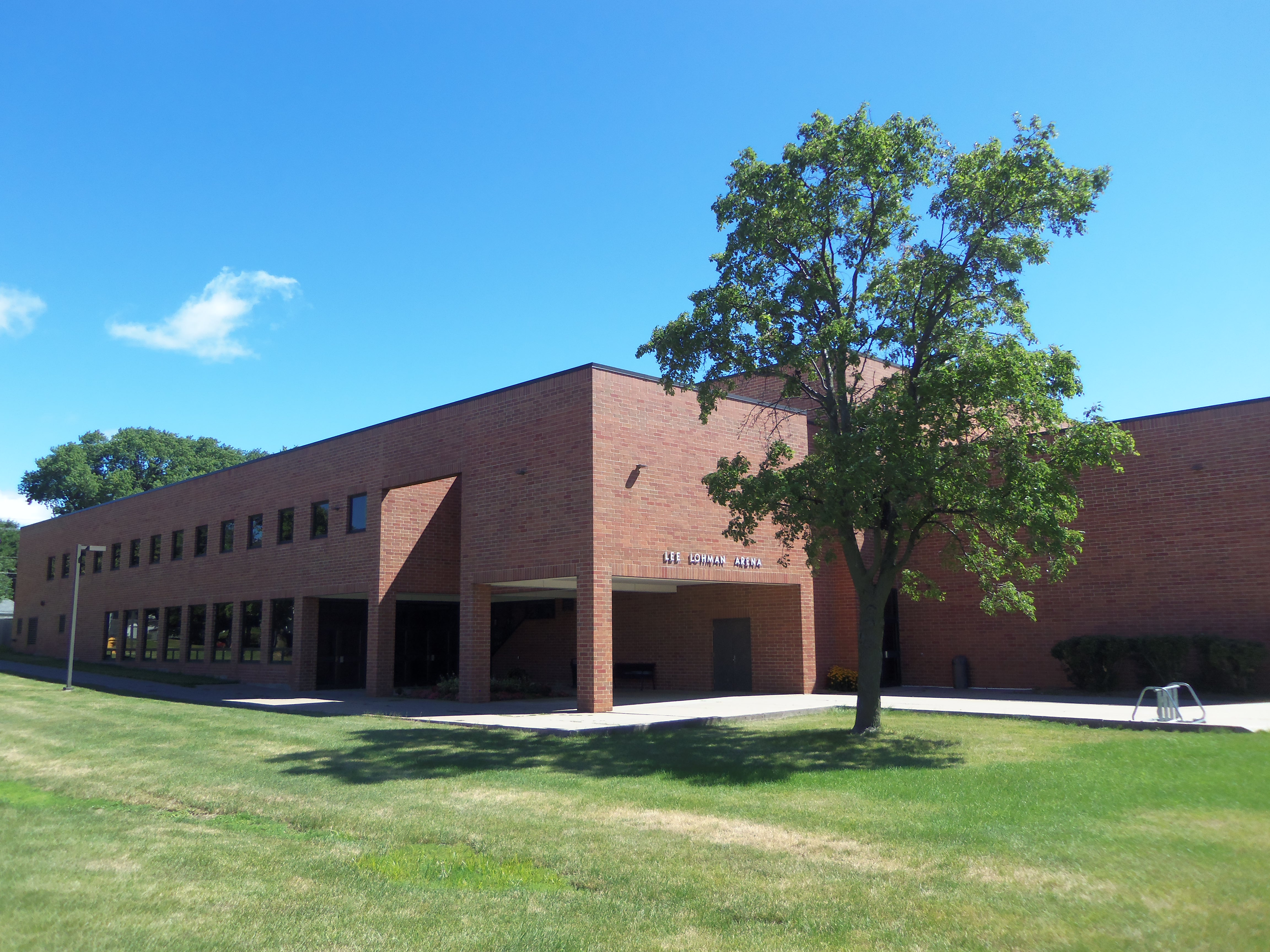 Lee Lohman Arena (Phys. Ed. Center) at St. Ambrose University in Davenport, Iowa.